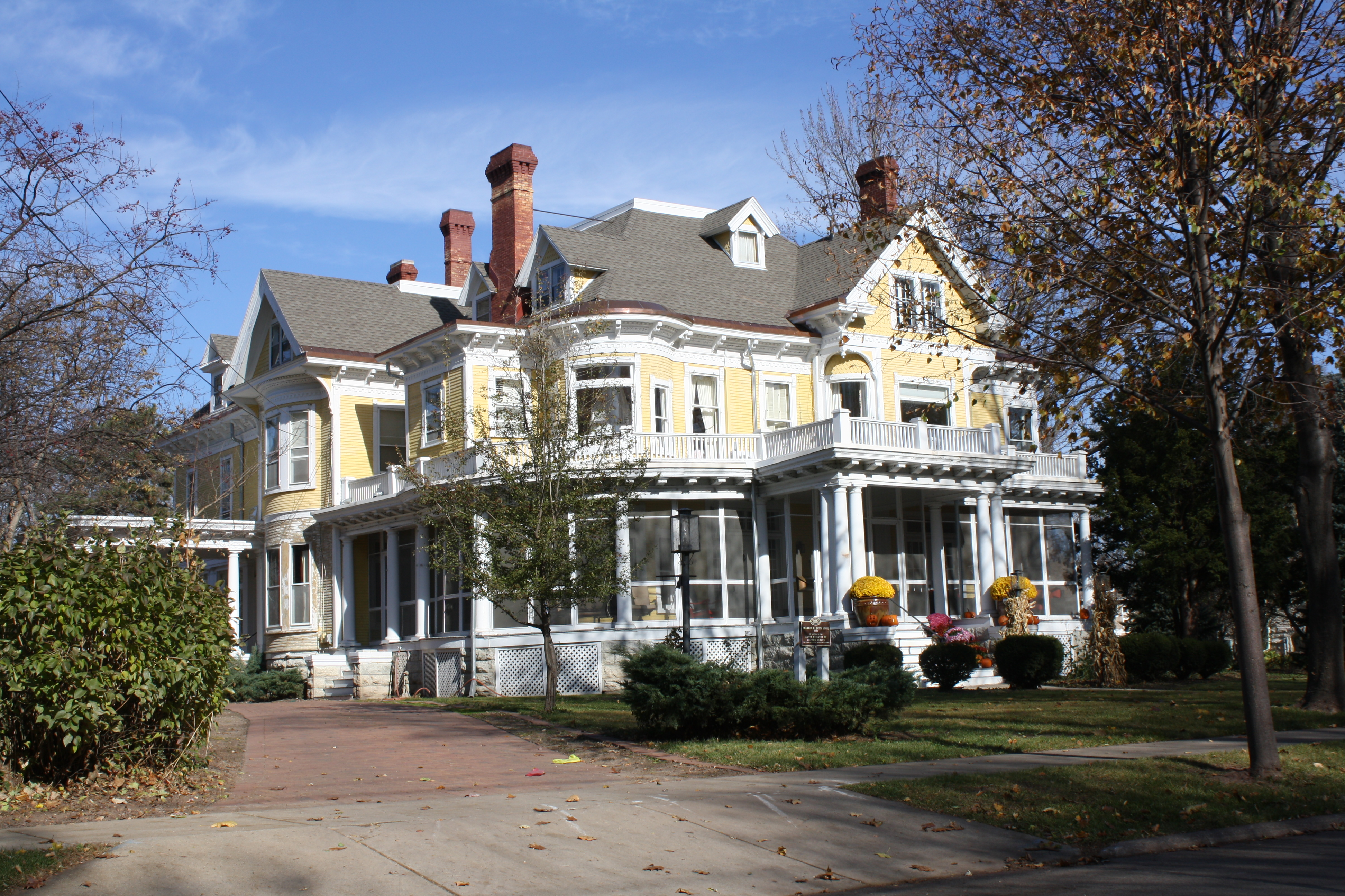 The Charles R. Smith House in Neenah, Wisconsin, listed on the National Register of Historic Places.